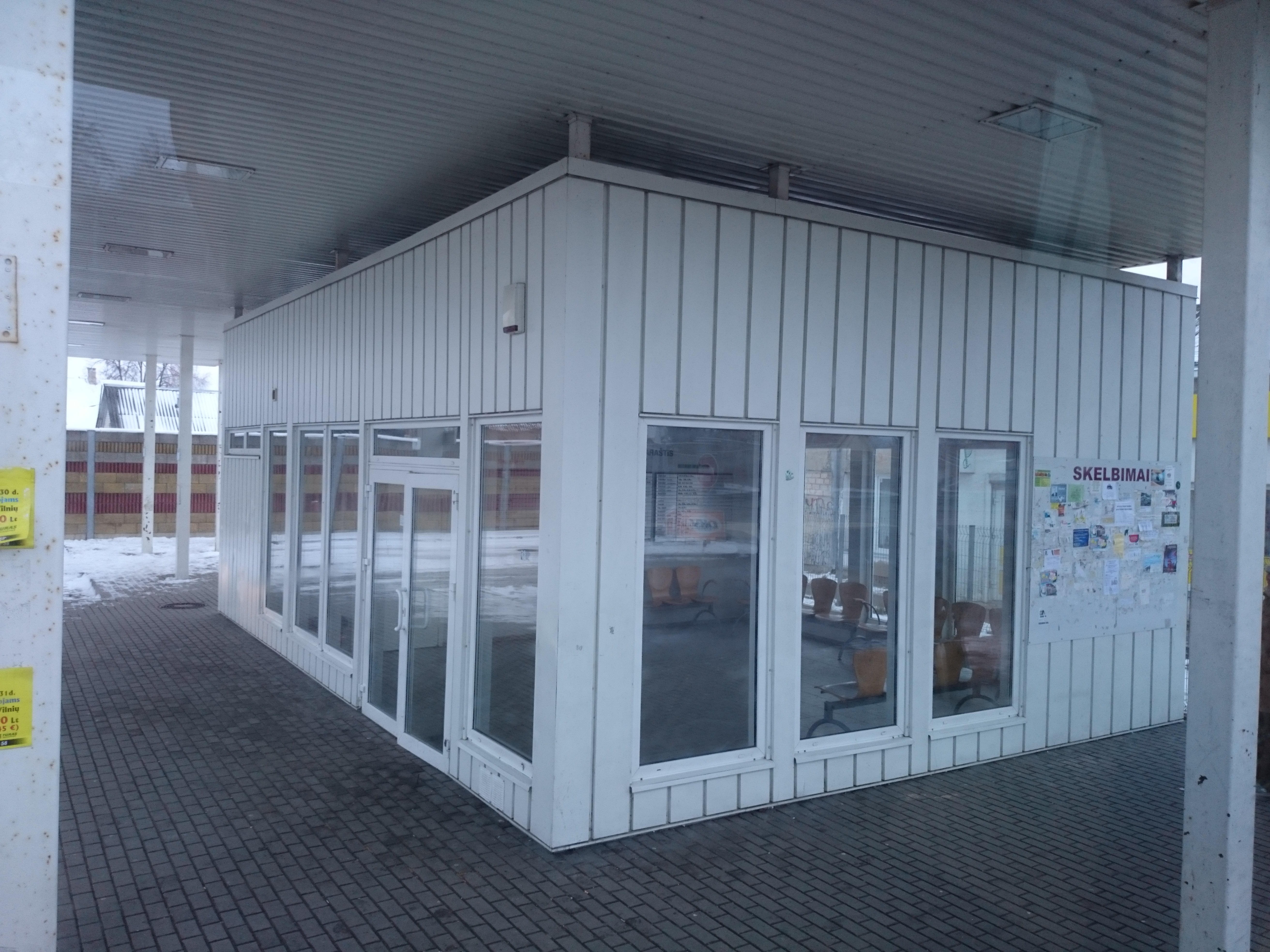 Vievis bus station 6